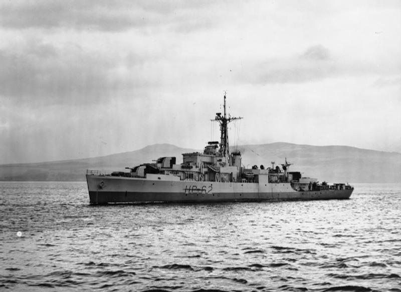 Photograph of British Black Swan class sloop HMS Lapwing.